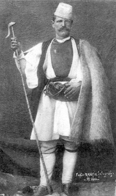 Vlach Shepherd in traditional clothes. Photo from the early 1900s